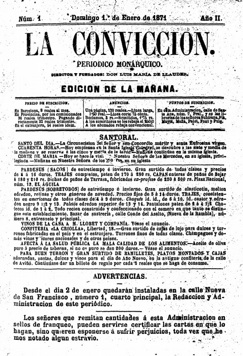 La Conviccion